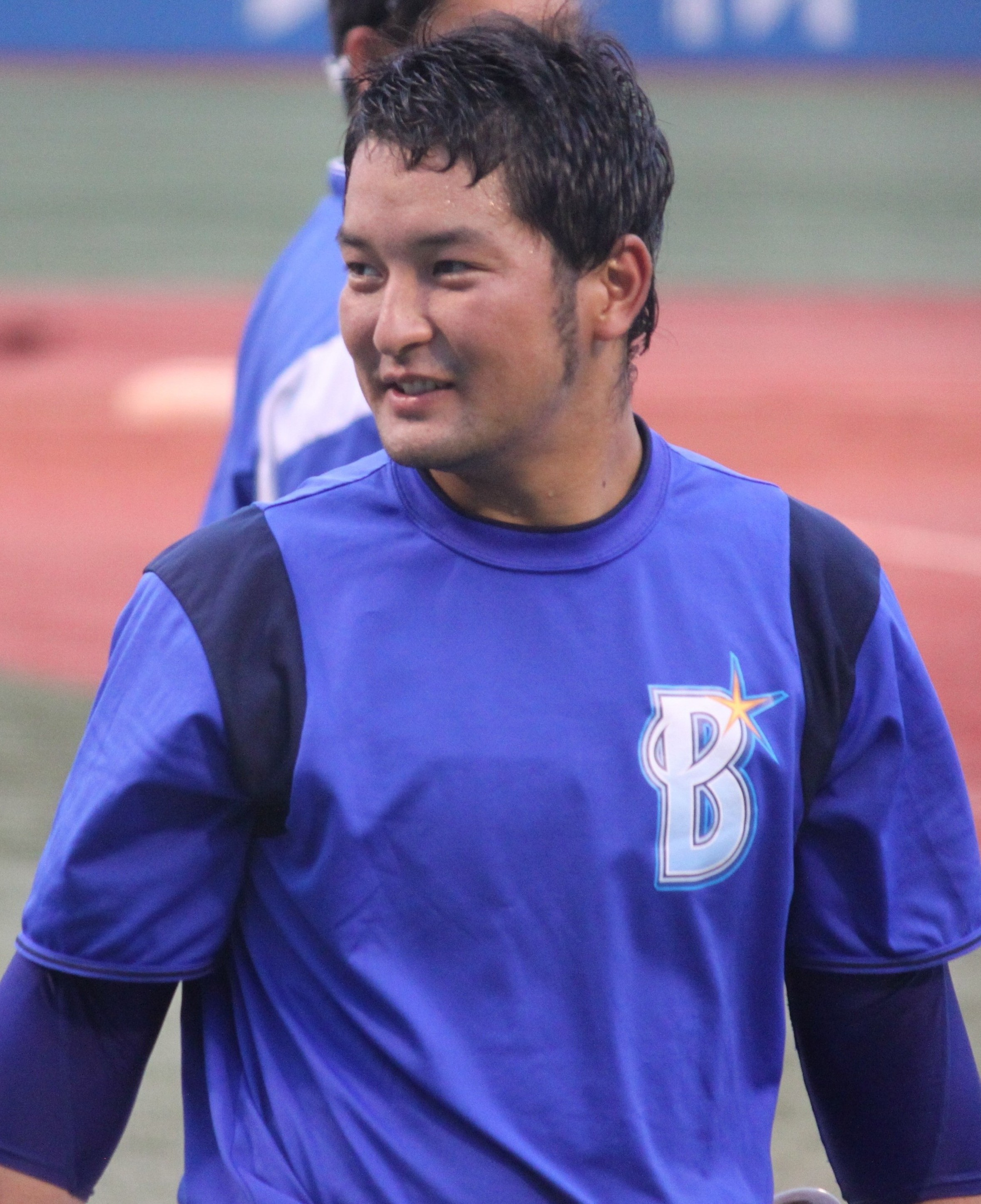 Hiroki Minei, a catcher of the Yokohama DeNA BayStars, at Meiji Jingu Stadium.